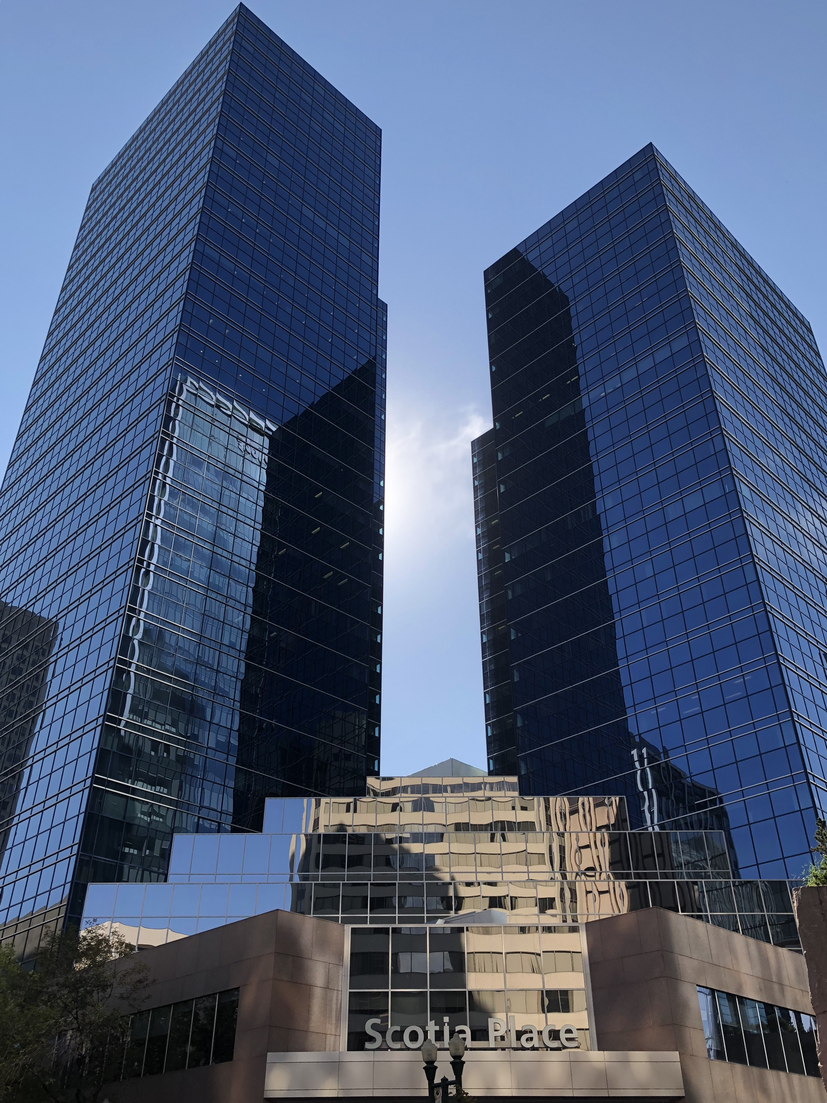 Scotia Place 2018